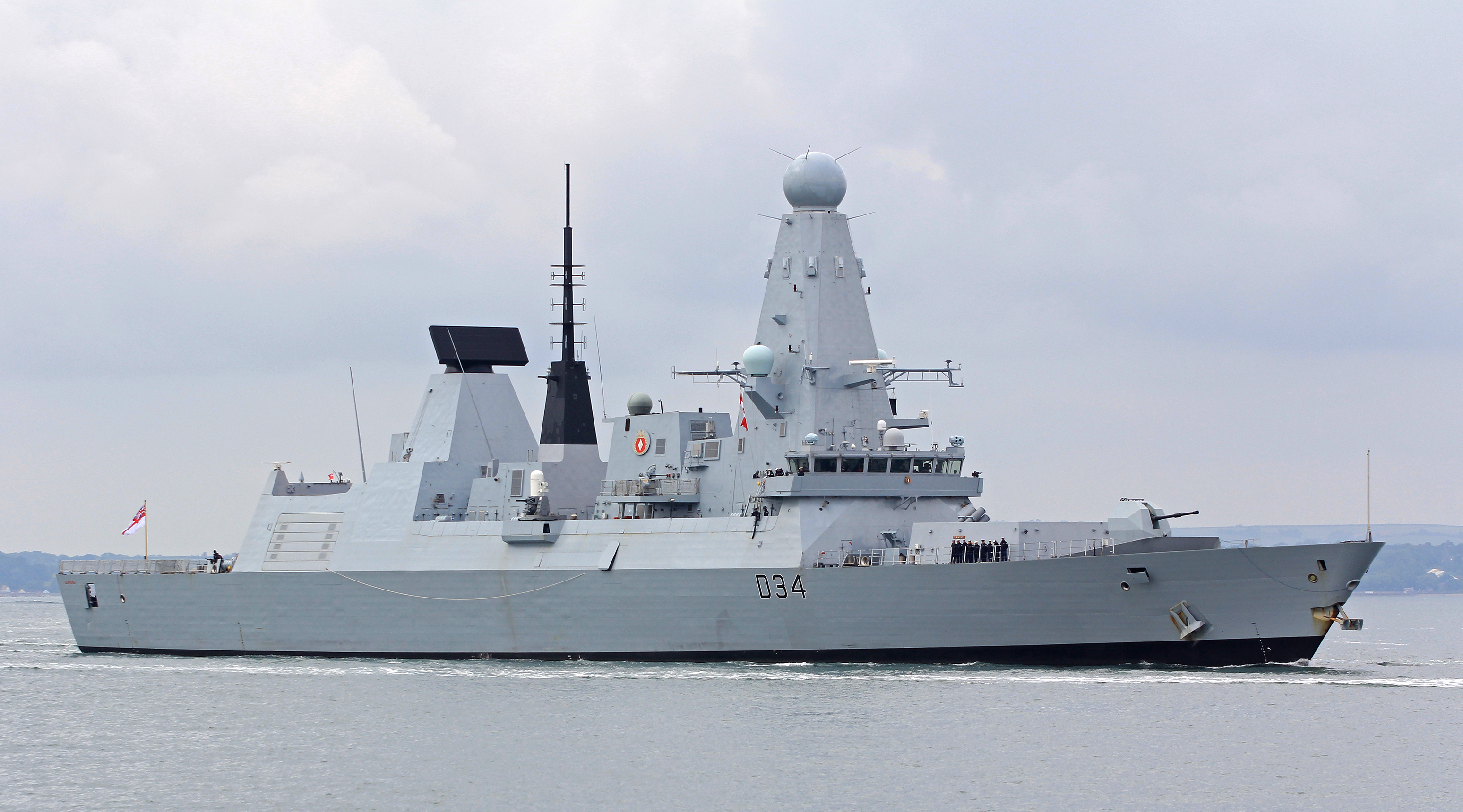 Type 45 air-defence destroyer HMS Diamond (D34) photographed by Brian Burnell inbound to Portsmouth Naval Base at 10.19 GMT on 17 June 2016.